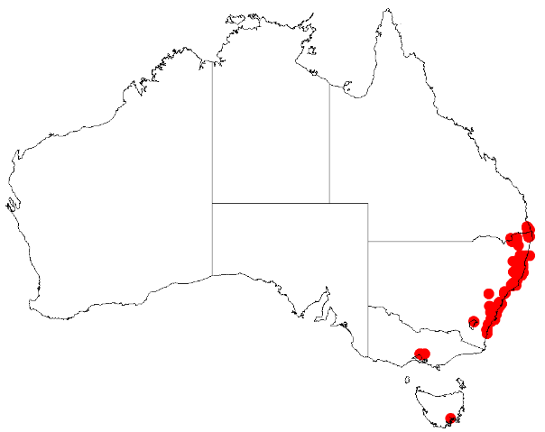 Acacia binervata Occurrence data from Australasian Virtual Herbarium downloaded from on 8 December 2018